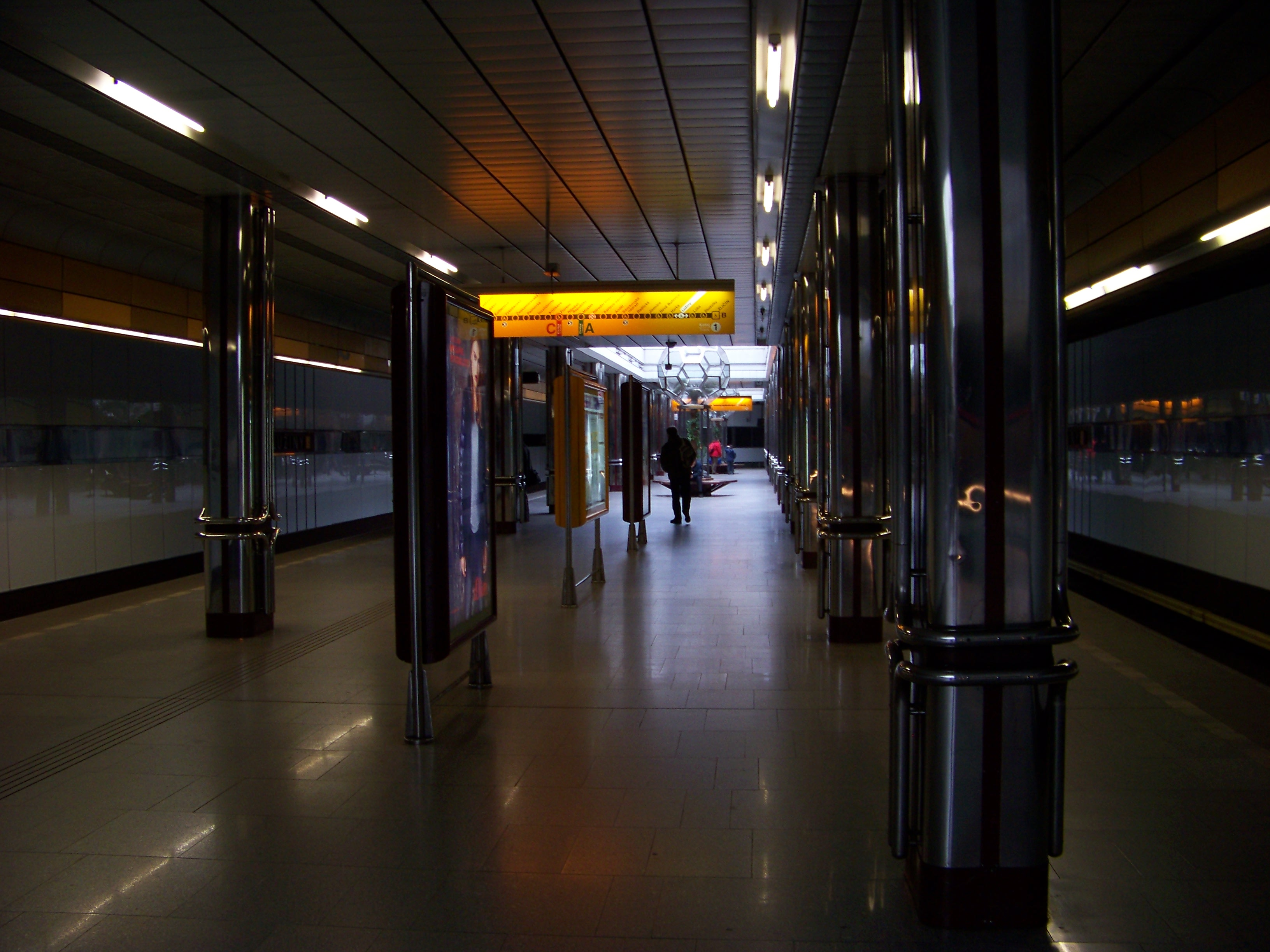 Prague-Stodůlky, Czech Republic. Sídliště Lužiny, metro station Lužiny, a platform. - OpenStreetMap (Info)